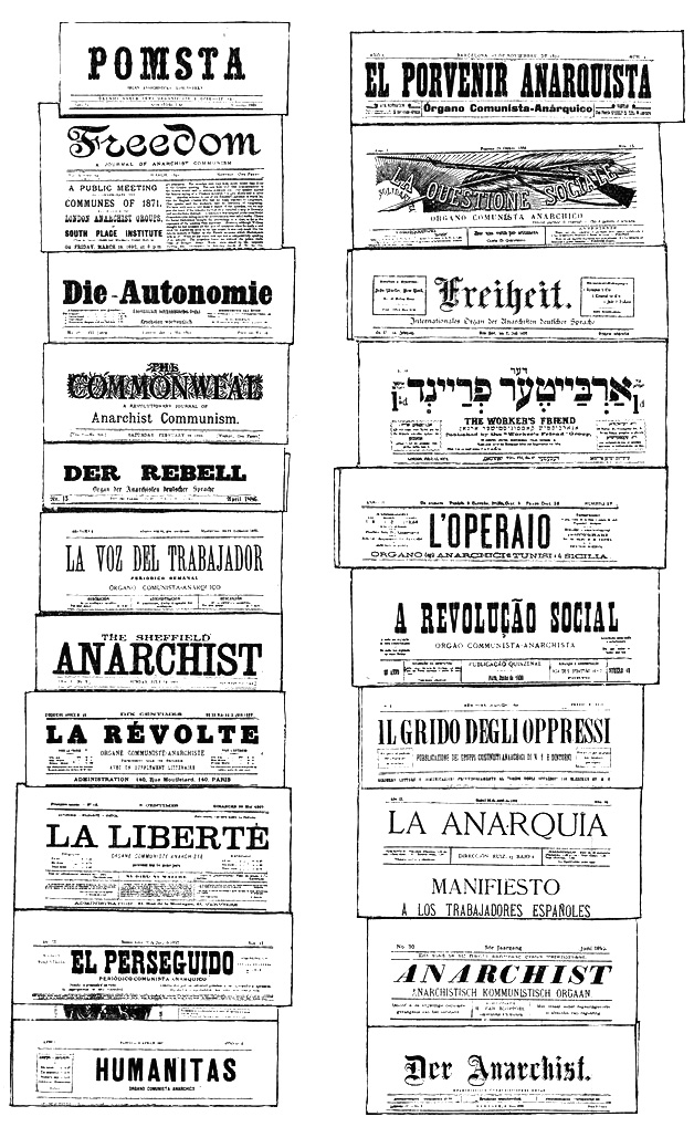 Anarchist newspapers